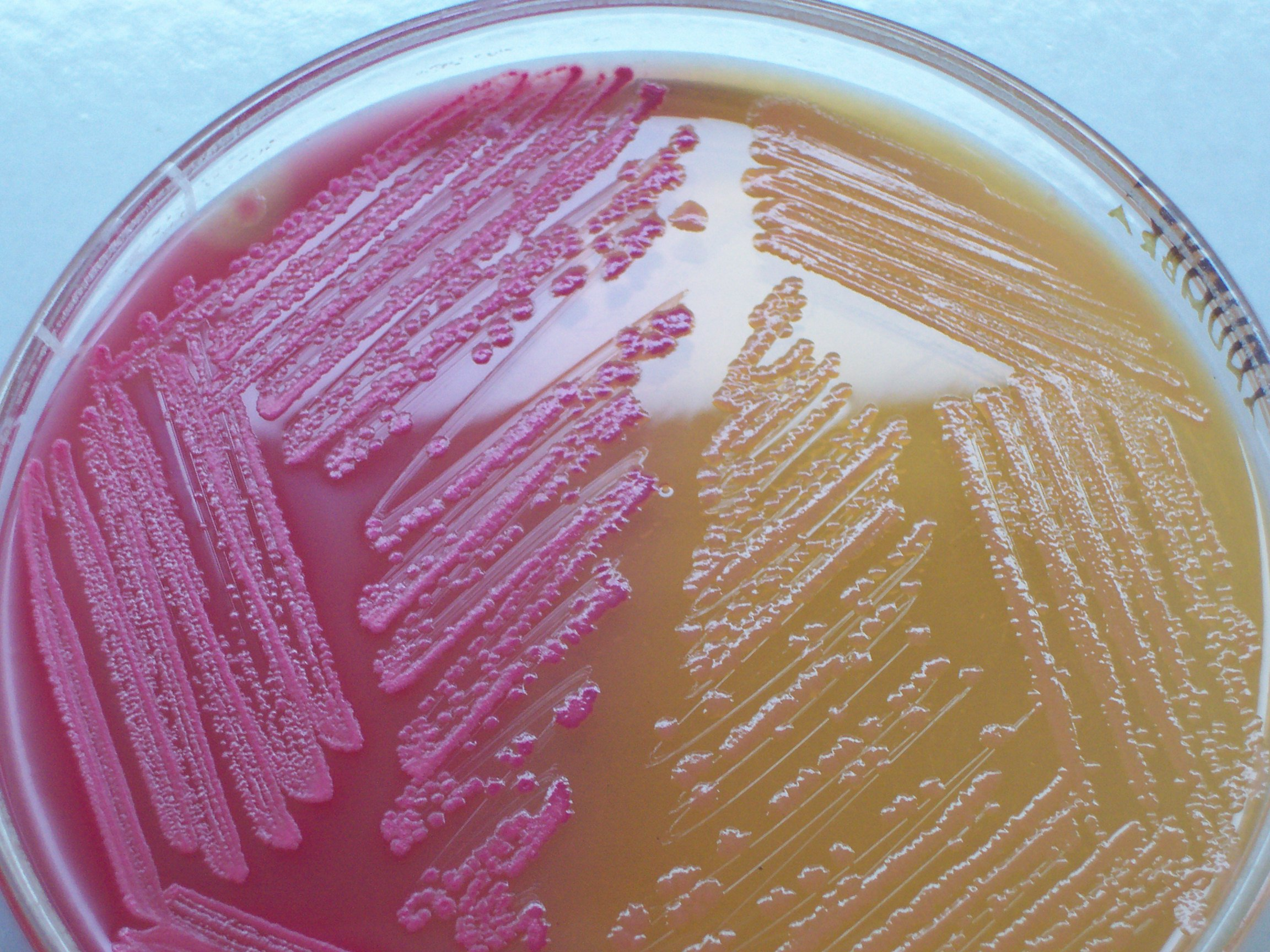 MacConkey's agar showing both lactose and non-lactose fermenting colonies. Lactose fermenting colonies are pink whereas non-lactose fermenting ones are colourless or appear same as the medium.